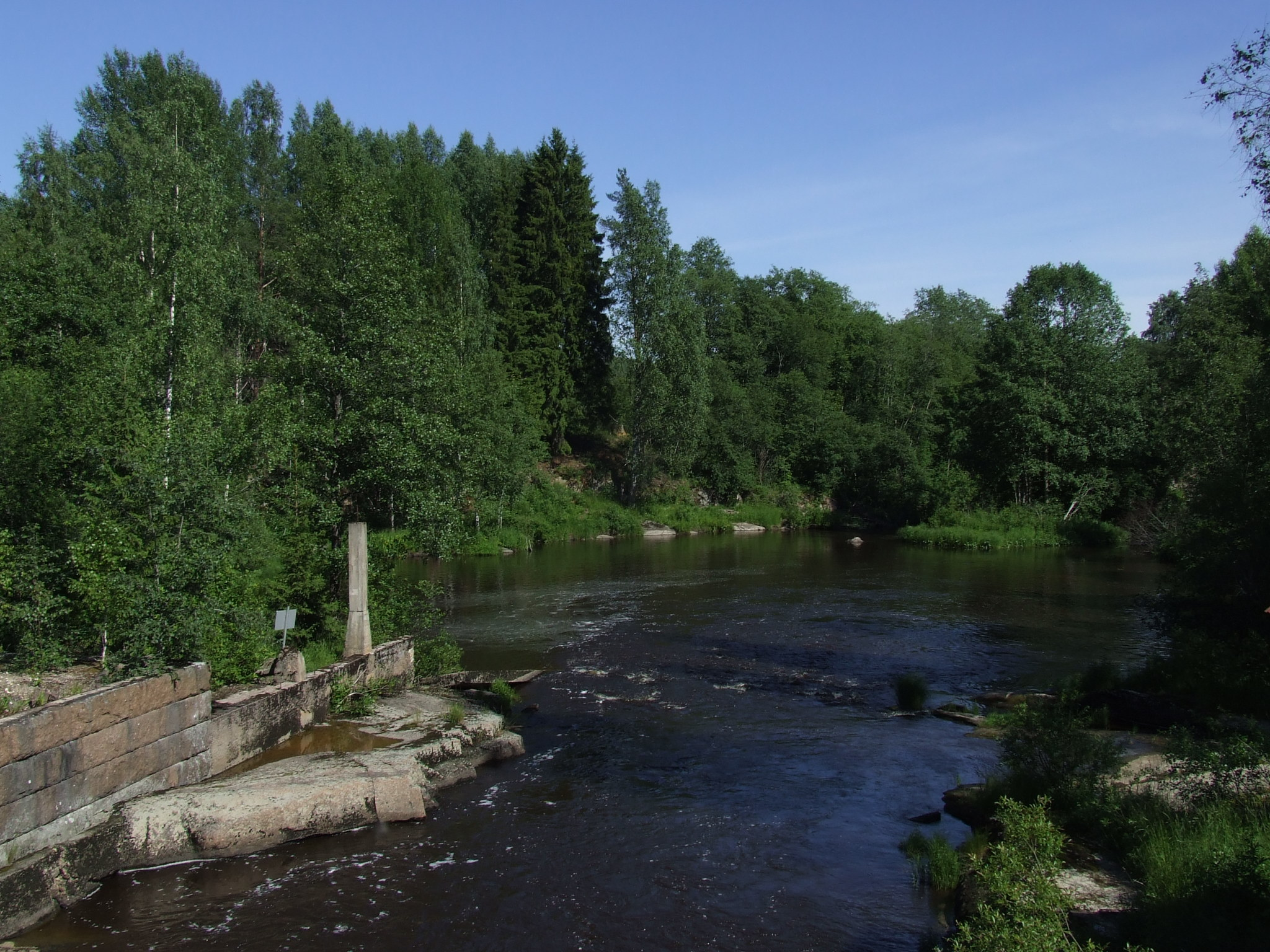 Summa river in Metsäkylä, Hamina, Finland.